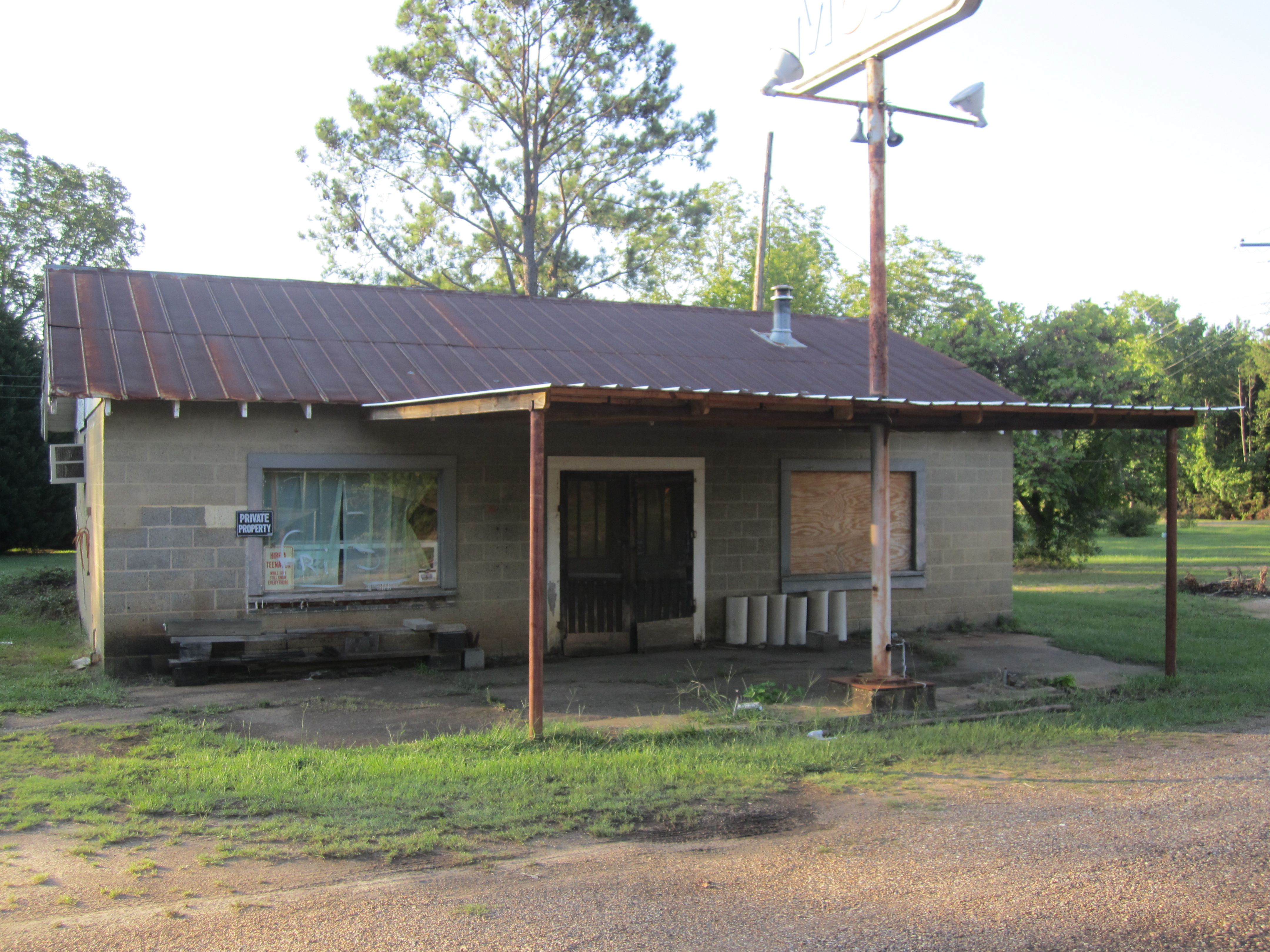 I took photo with Canon camera in Ashland, LA.